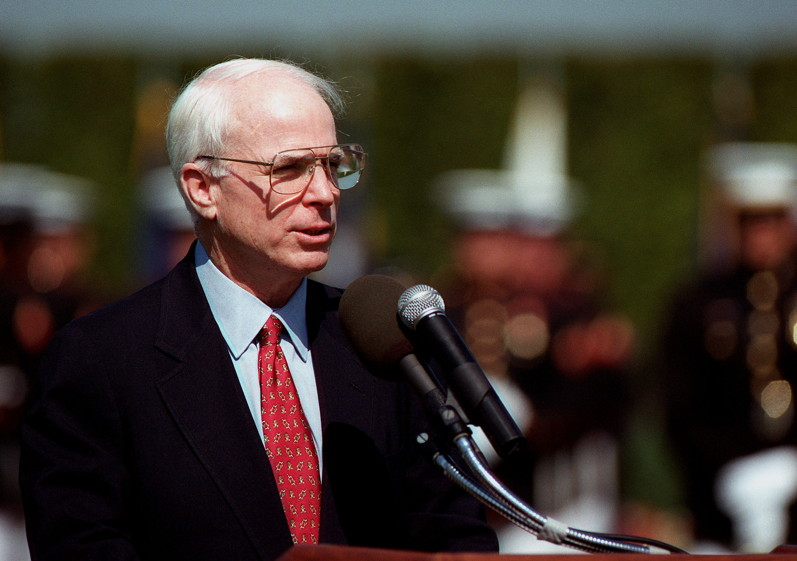 U.S. Senator John McCain delivers the keynote address during the Pentagon observance of National POW/MIA Recognition Day ceremony.